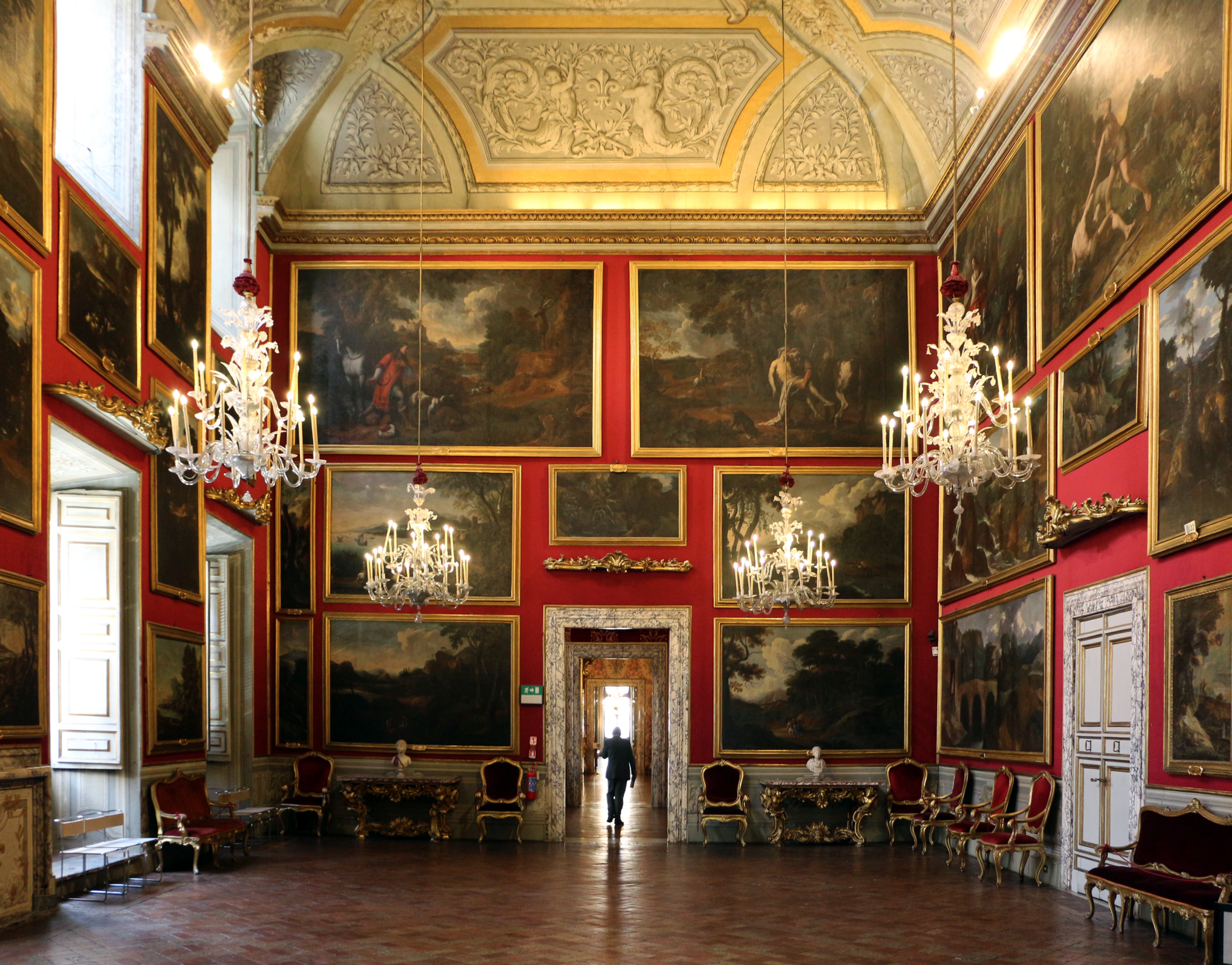 Palazzo Doria Pamphilj (Rome) - Interiors